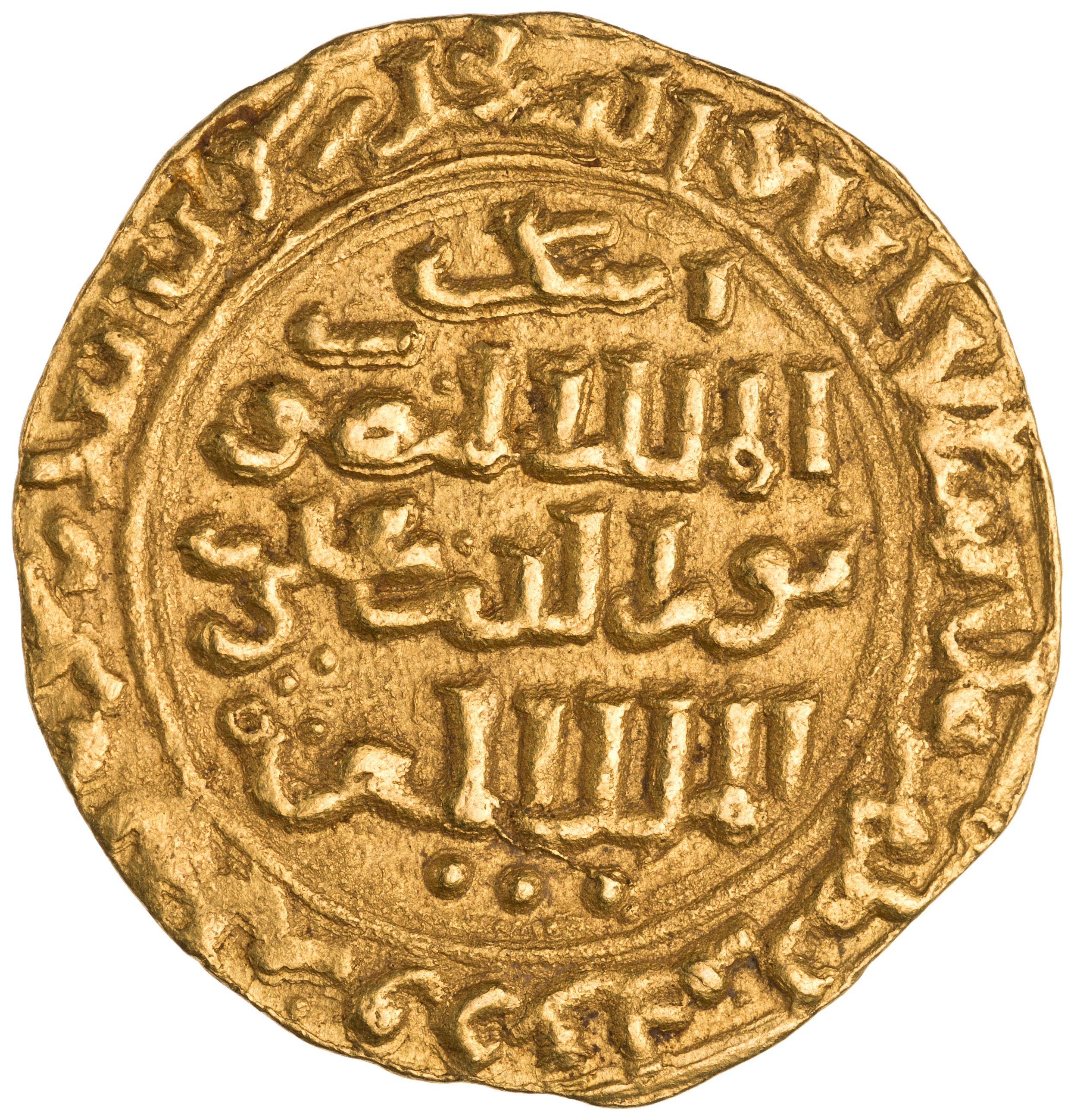 Gold dinar of Mamluk sultan al-Mansur Ali minted in Cairo in 1258/59